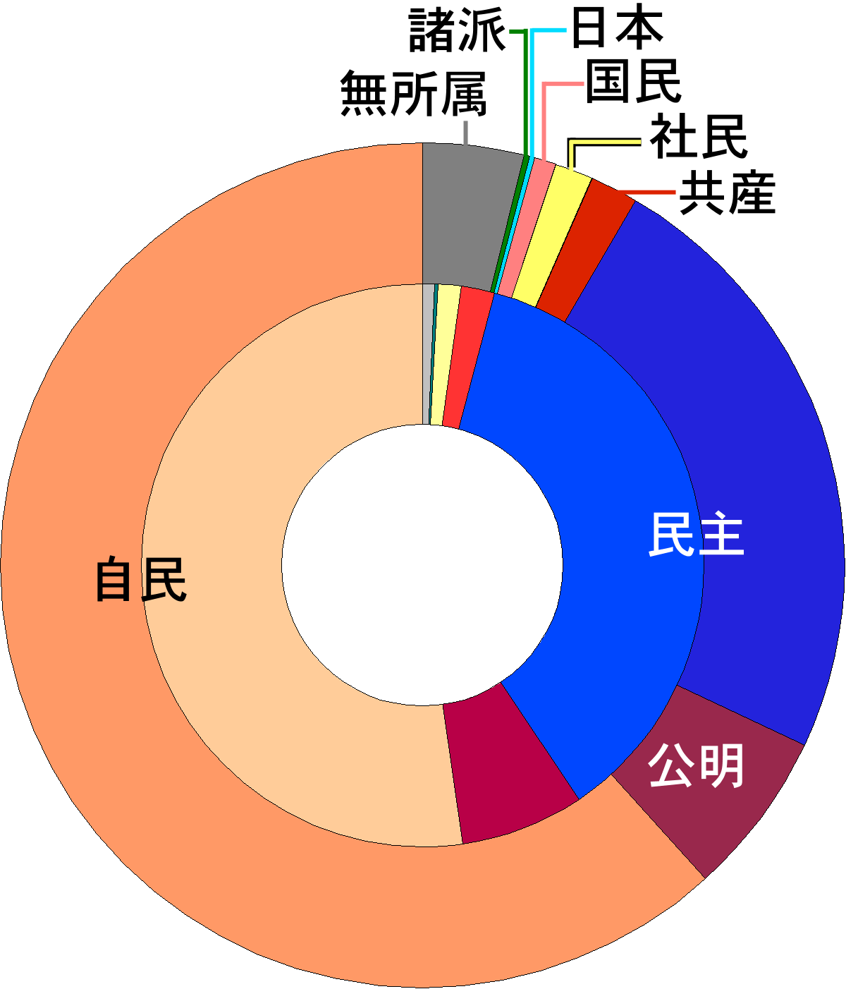 第44回衆議院議員選挙の結果を表した円グラフ。 // Results of Japan general election, 2005